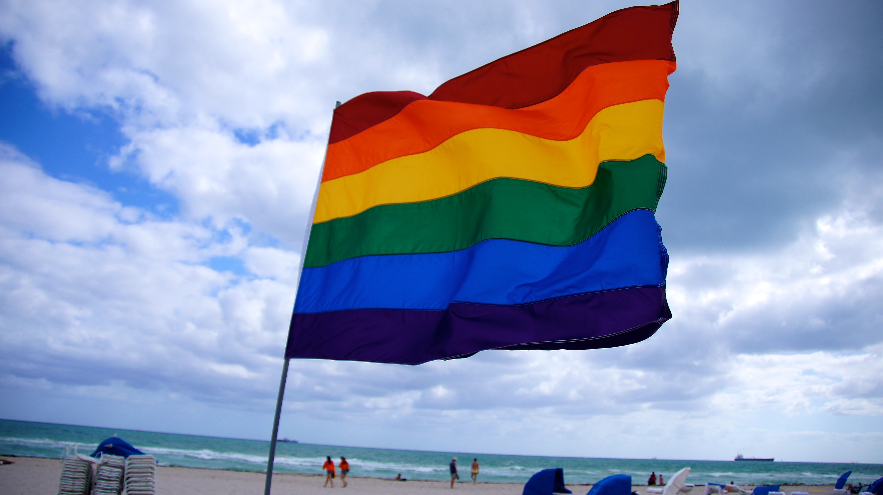 A large rainbow flag flies at the 12th Street Beach, South Beach, Miami